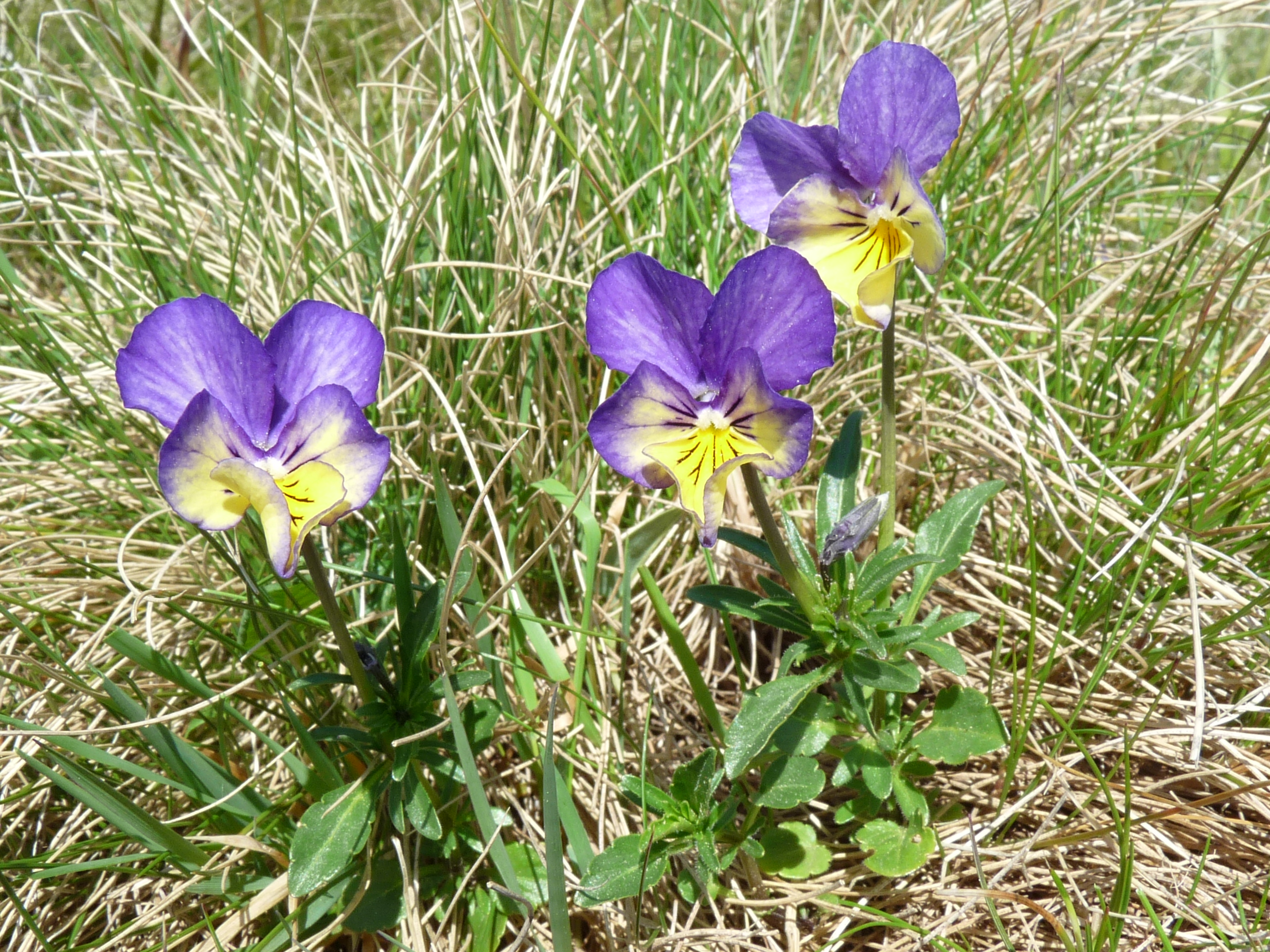 Viola lutea